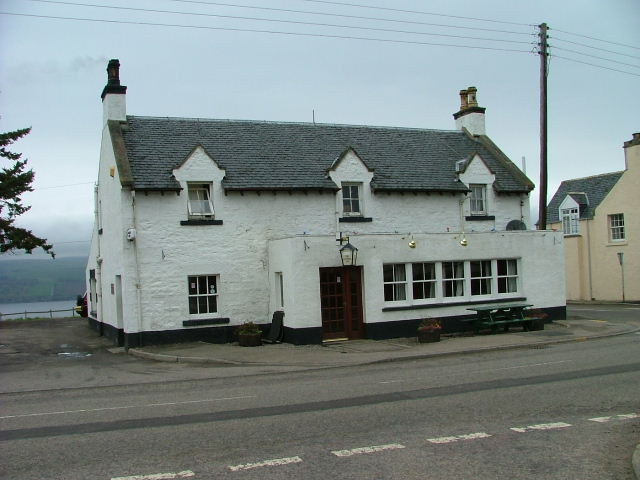 Culbokie Inn. A Listed Building built in 1790